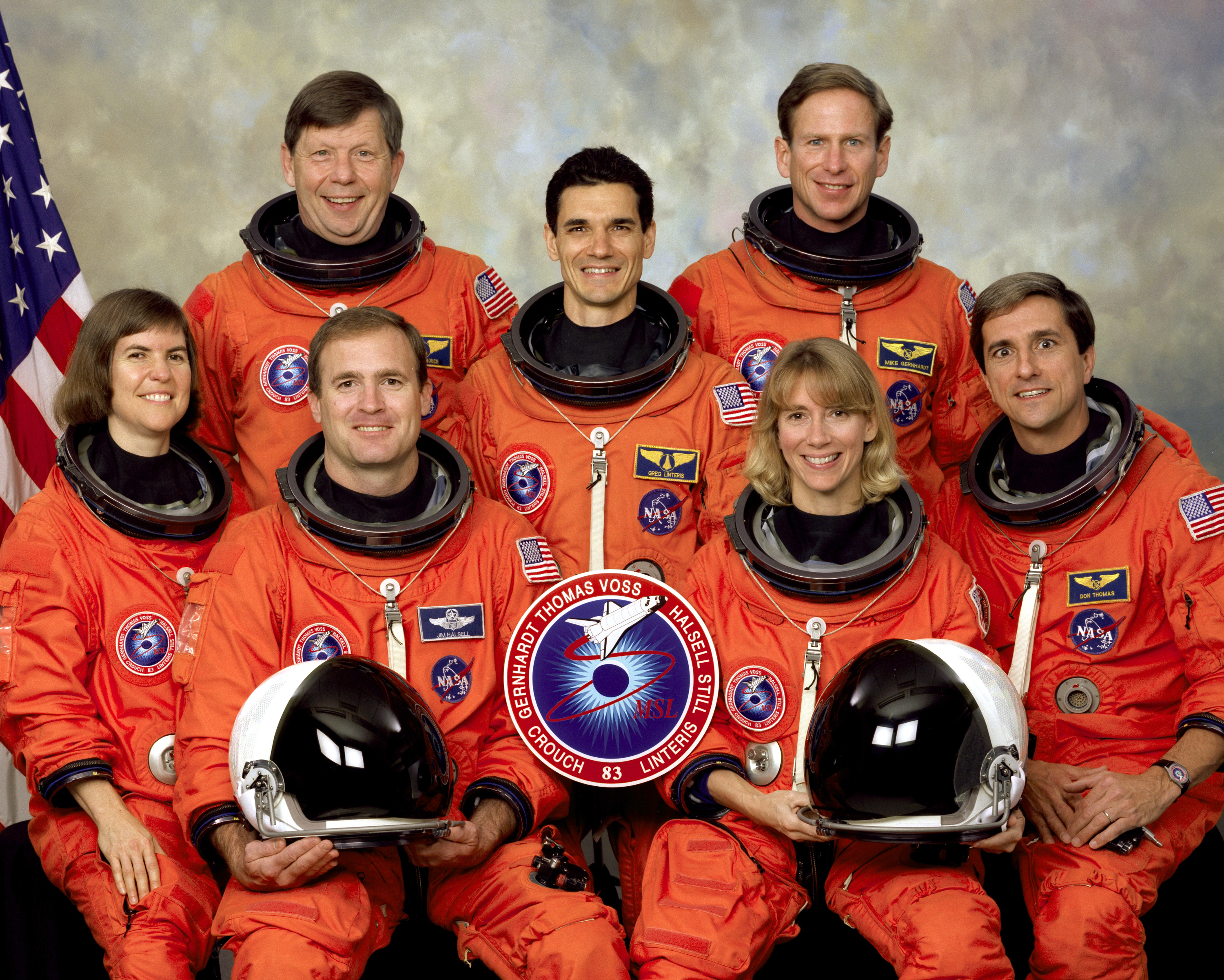 Five NASA astronauts and two scientists comprised the crew for the STS-83 and STS-94 missions in support of the first Microgravity Sciences Laboratory 1 (MSL-1). Pictured on the front row (left to right) are Janice E. Voss, payload commander; James D. Halsell, commander; Susan L. Still, pilot; and Donald A. Thomas, mission specialist. On the back row (left to right) are payload specialists Roger K. Crouch, and Gregory T. Linteris; and Michael L. Gernhardt, mission specialist. Dr. Crouch and Dr. Linteris are experts in several disciplines treated on MSL-1. STS-83 launched aboard the Space Shuttle Columbia on April 4, 1997. The five launched again in July 1997 for the STS-94 mission.